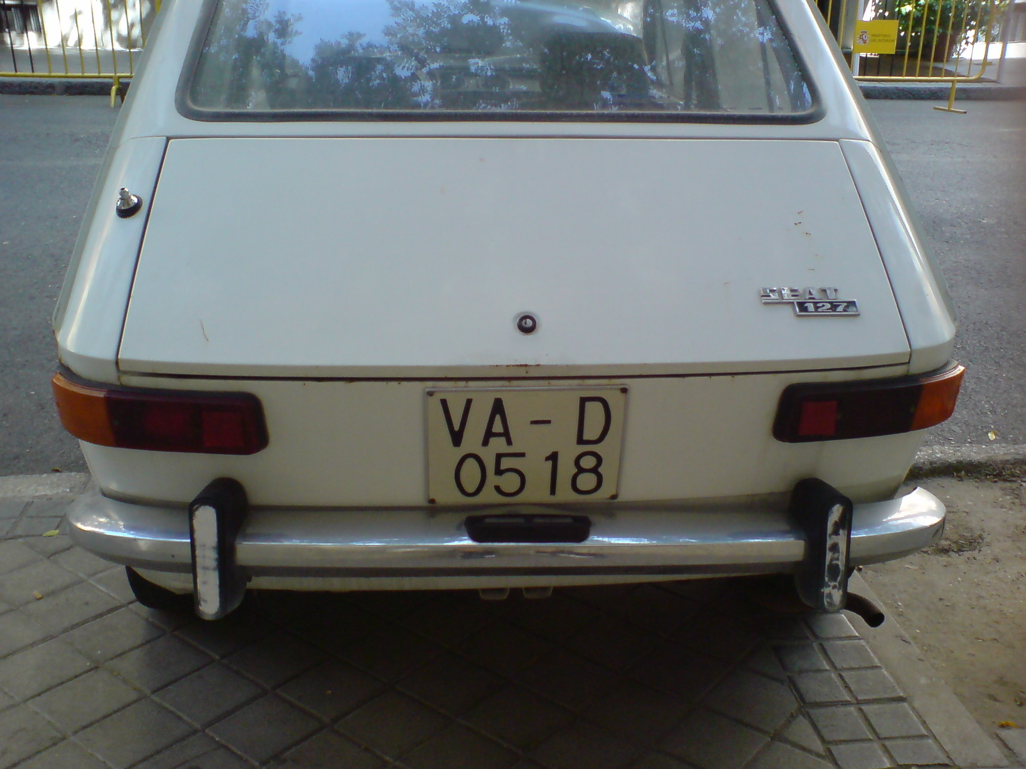 Fiat SEAT 127 r.